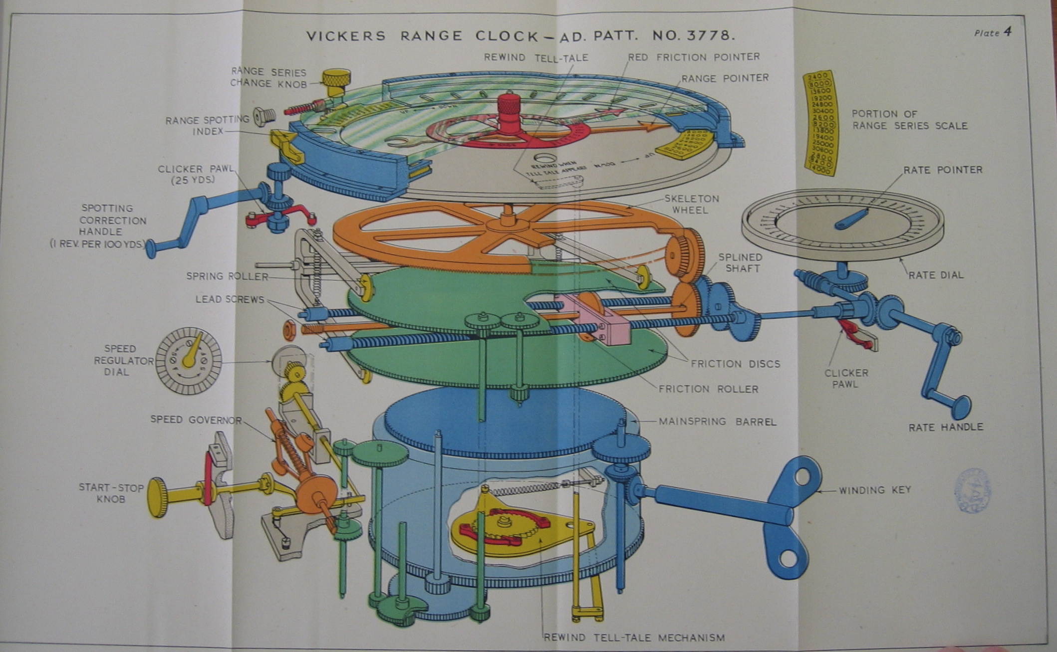 An image of a color plate from B.R. 1534 (IV) Handbook of Minor Fire Control Instruments, 1946 depicting an exploded view of a Vickers Range Clock, Admiralty Pattern 3778. The handbook copy imaged was in the Admiralty Historical Branch Library in Portsmouth, UK. The Handbook, as a government publication, would not enjoy copyright protection in the US, the nationality of the photographer offering his image here, and by international copyright law therefore enjoys no copyright protection. Photographed by Anthony Lovell, June 8, 2005 in Portsmouth UK.